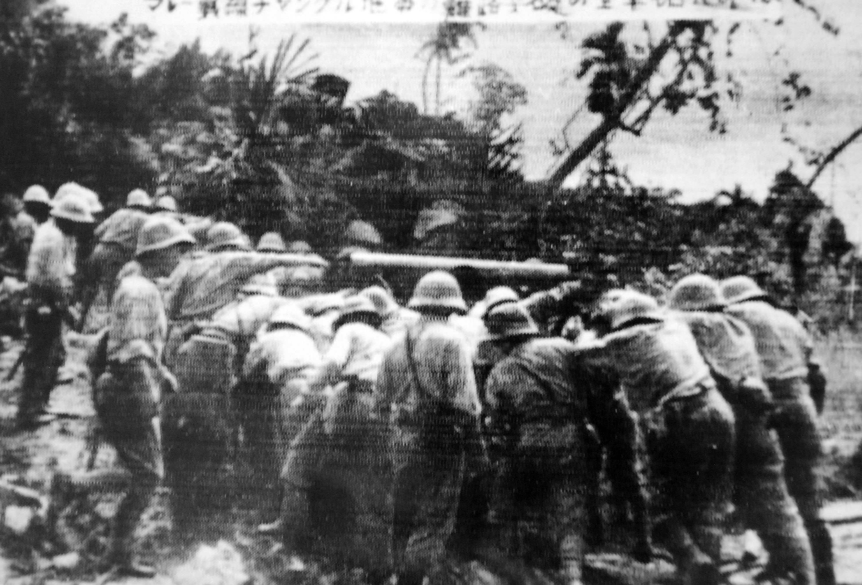 Lot-2651-2: WWII-Japan. Japanese land on Malaysia, December 1941. Taken from the German album, “Greater Germany in the Affairs of the World, 1939-1942: Month December 1941.” Photographed through Mylar sleeve. Courtesy of the Library of Congress. (2017/05/12).